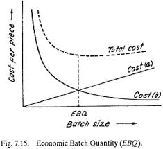 Mapping variation in cost per piece with respect to batch size and graphically adding the same to get the total cost curve.